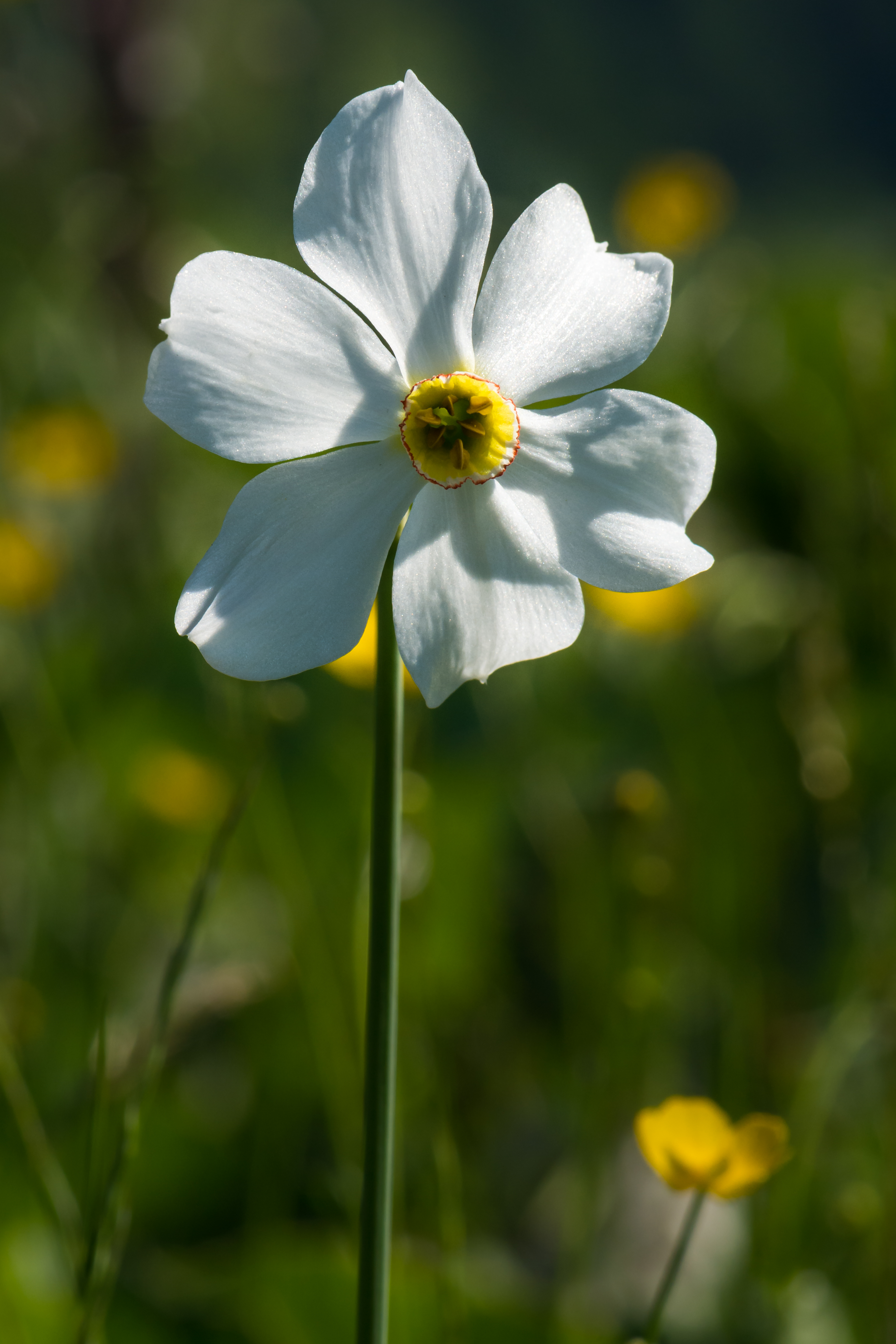 Poet's daffodil (Narcissus poeticus) on a wet meadow near lake Spechtensee, Styria, Austria